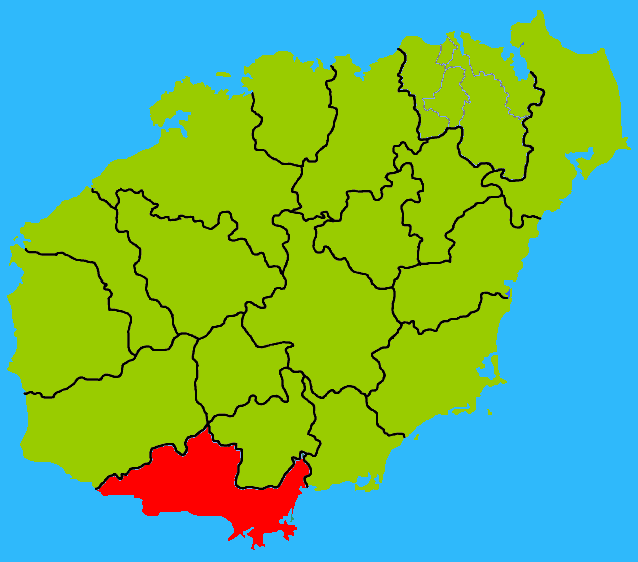 Sanya Prefecture (red) on Hainan Island — in Hainan Province, Southeast China.